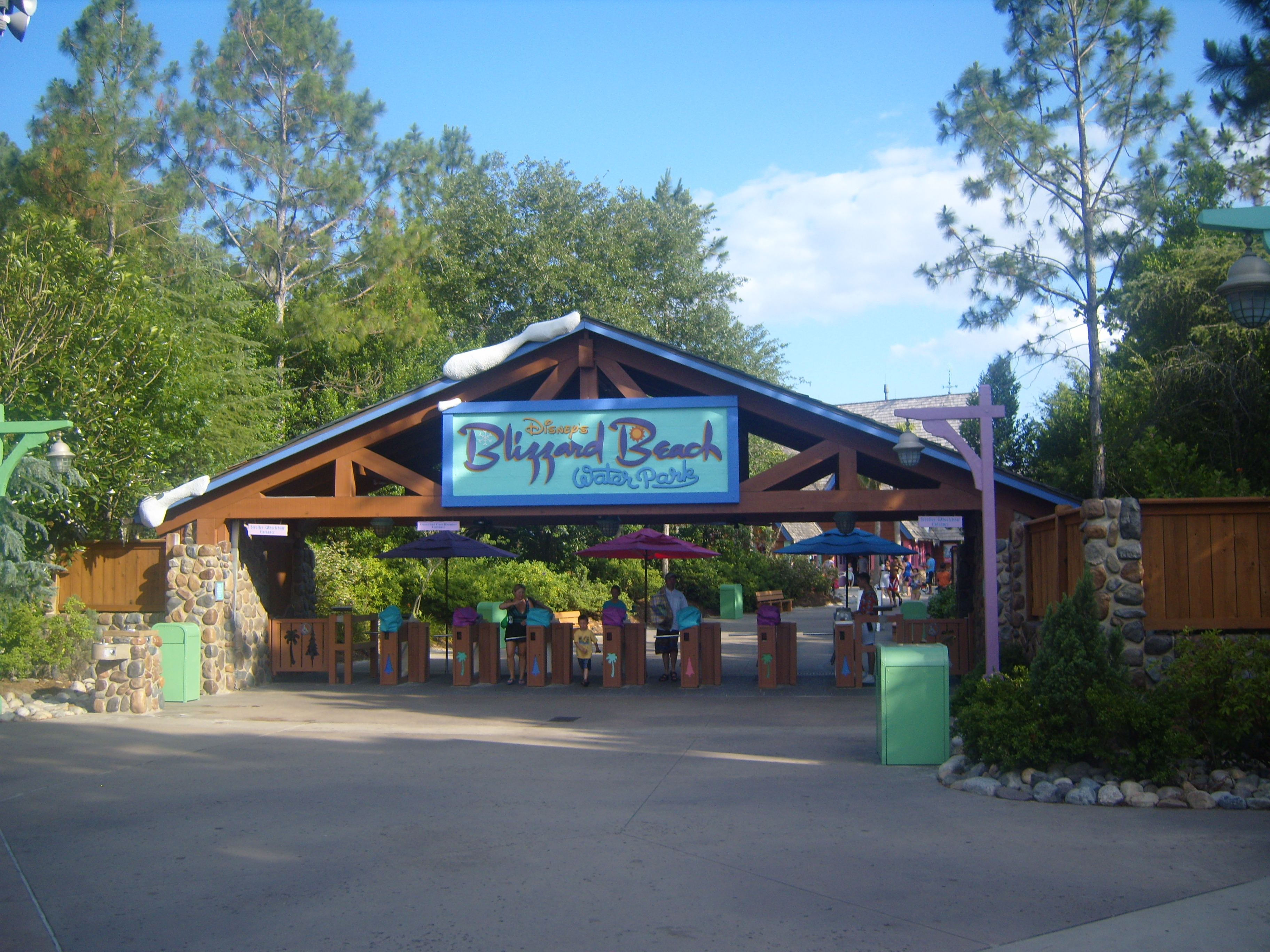 The entrance of the water park 'Blizzard Beach' in Walt Disney World